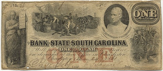 A banknote issued for circulation in the state of South Carolina of the United States of America.